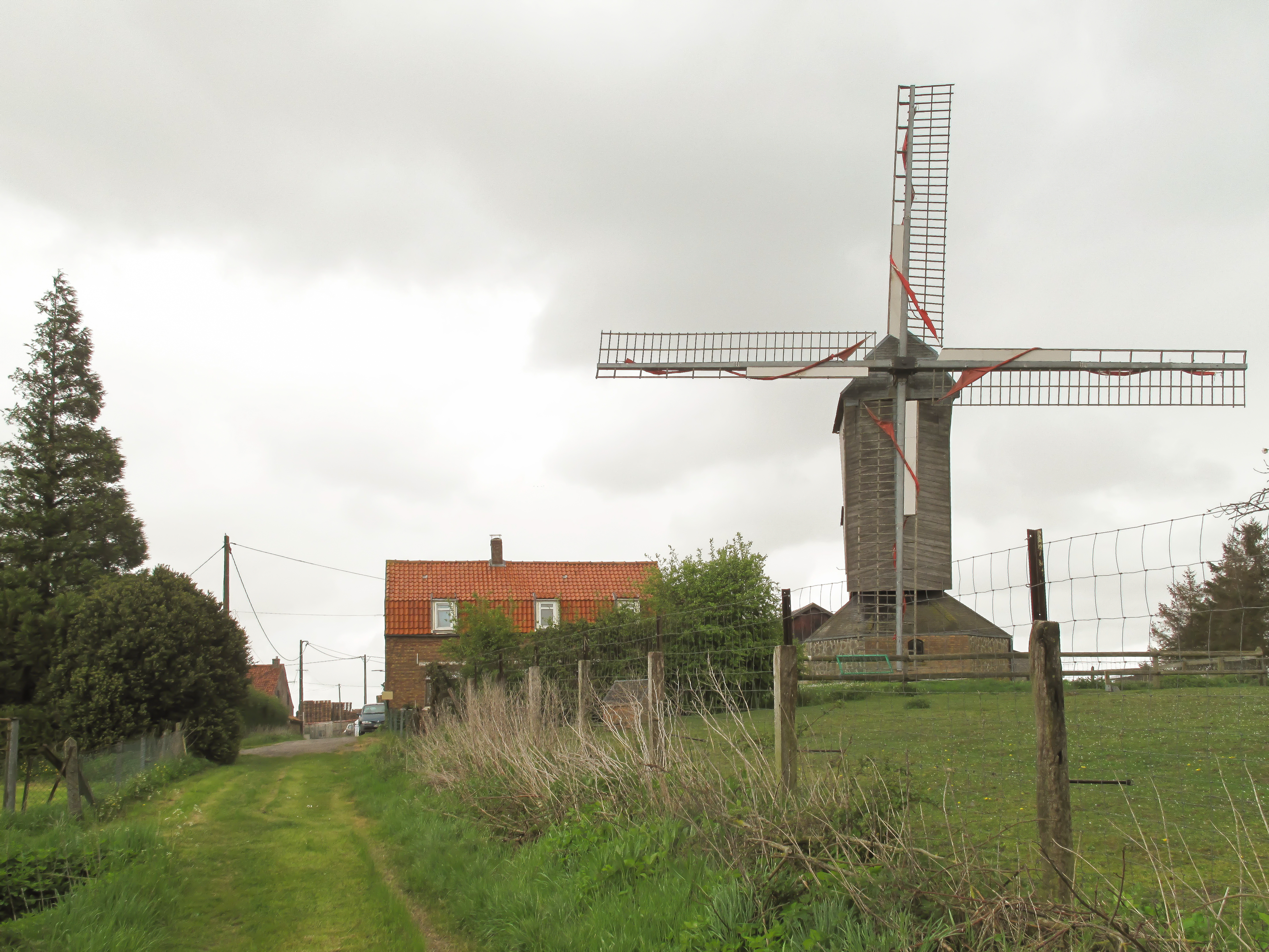 between Houtkerque and Les Cinq Chemins, windmill: l’Hoflandmeulen